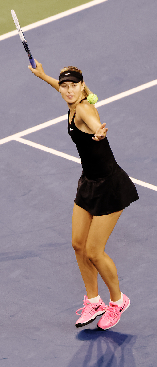 The 2014 US Open is a tennis tournament played on the outdoor hard courts. It is the 134th edition of the US Open, the fourth and final Grand Slam event of the year. It is currently taking place at the USTA Billie Jean King National Tennis Center. Roger Federer Ana Ivanovic Bill Diblasio David Dinkins Martina Navratilova